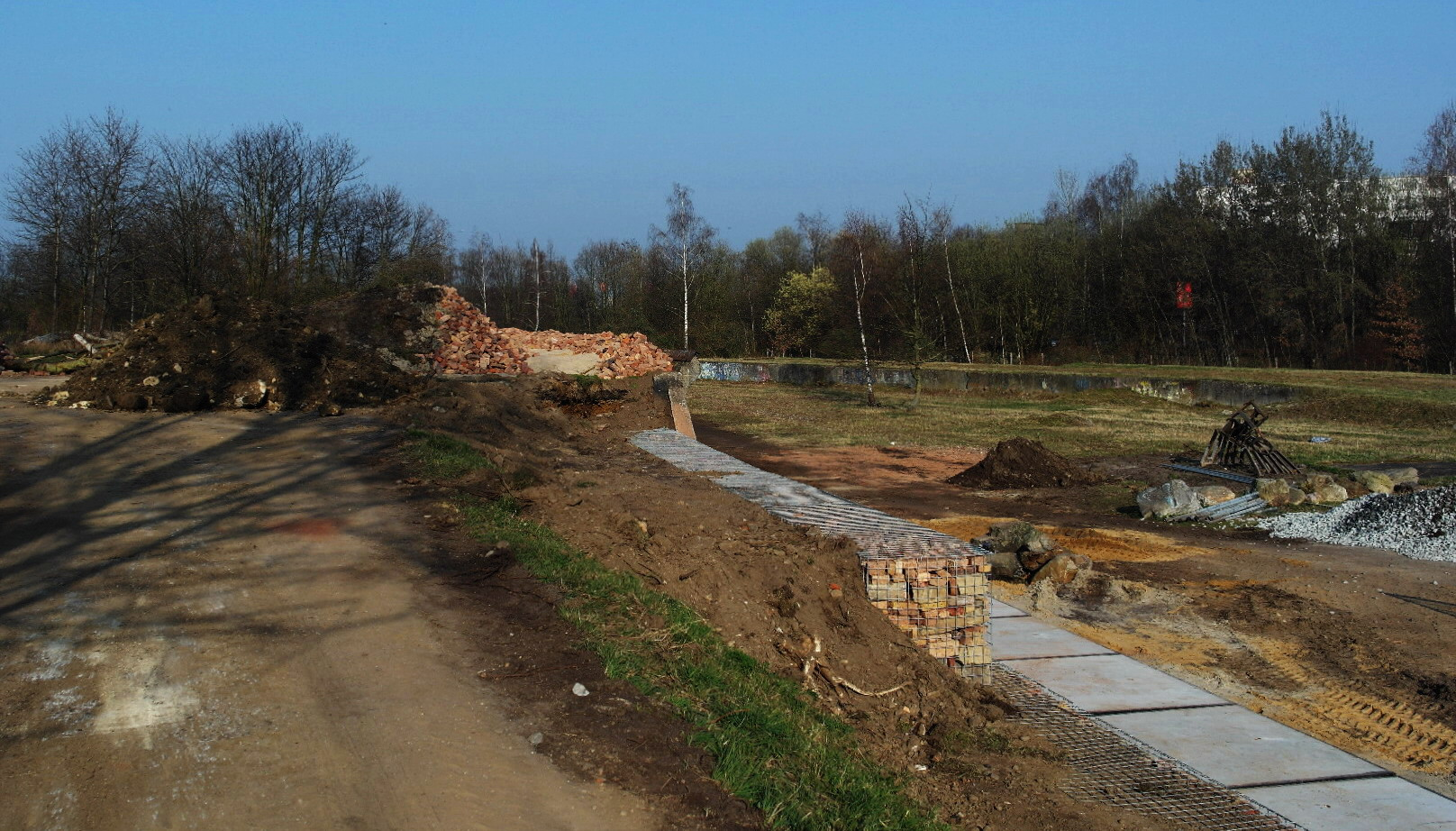 Maastricht, the Netherlands. View towards the north of Frontenpark, a newly-developed park on the northwest side of the old city, incorporating remnants of the Nieuwe Bossche Fronten, the low-lying fortifications and water-filled ditches dating from 1816-1823. Here: ongoing work on building 'sunbathing' walls for Podarcis muralis, or common wall lizards.